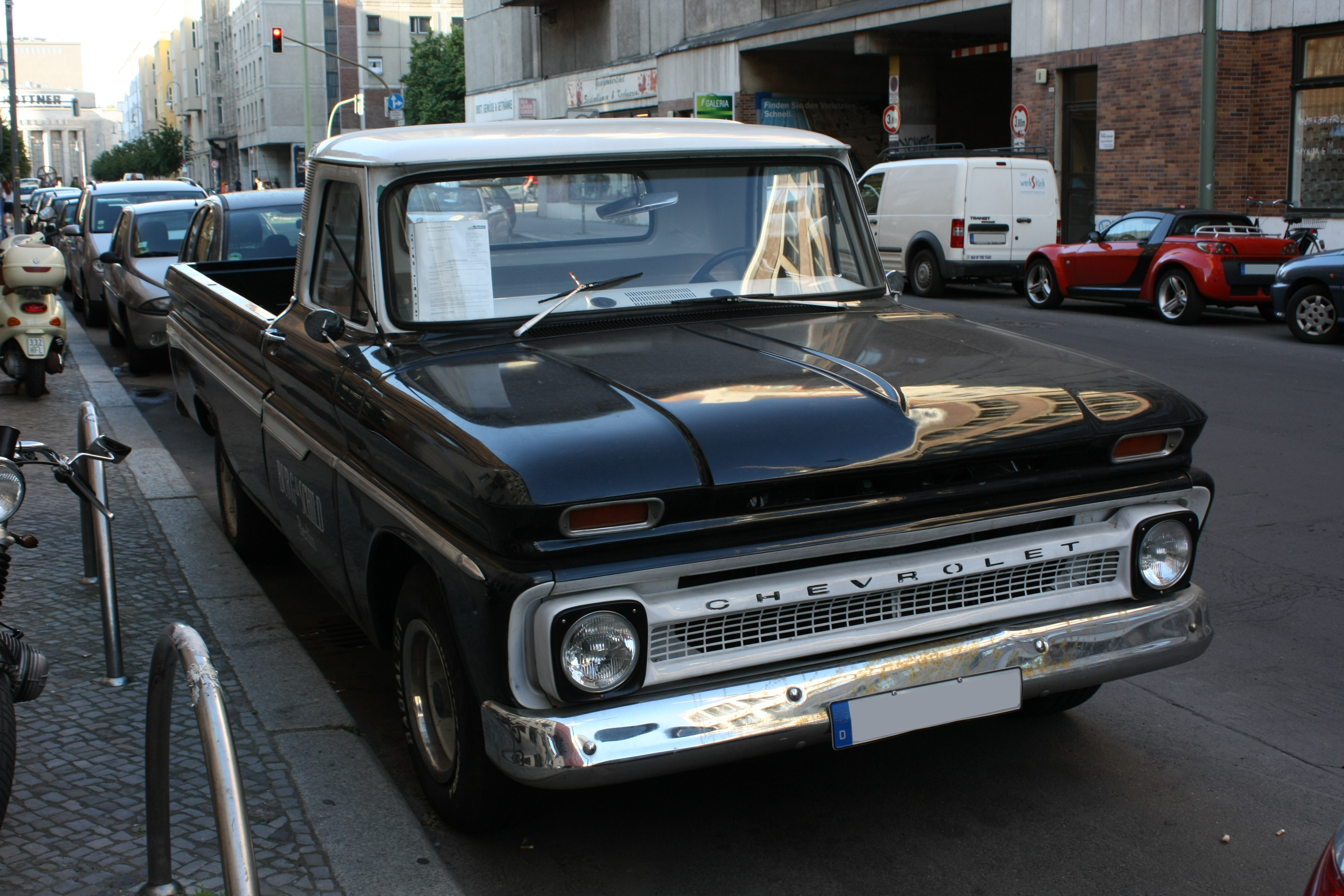 1966 Chevrolet C/K Series